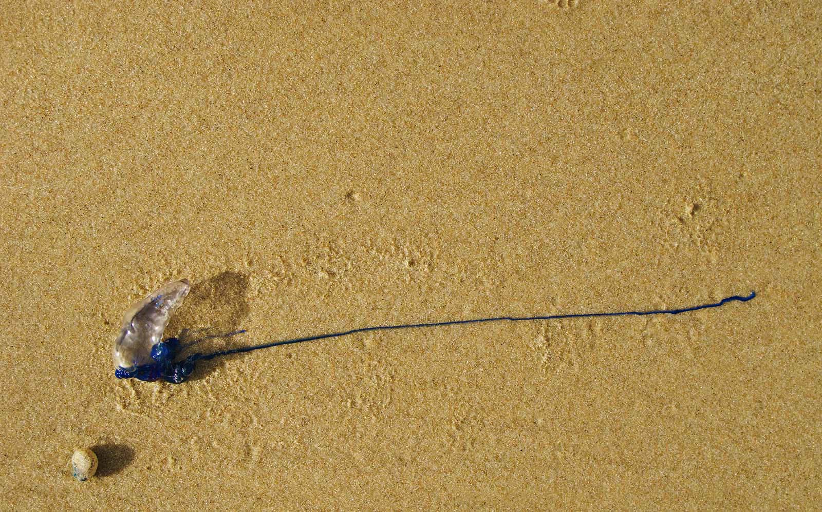 Sometimes called the Indo-Pacific Portuguese Man-of-War, this Blue Bottle Jellyfish was found on Teewah Beach in Queensland, Australia.